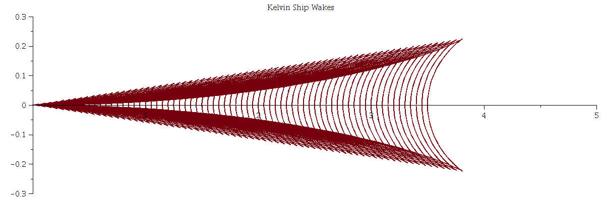 Kelvin Ship Waves plot